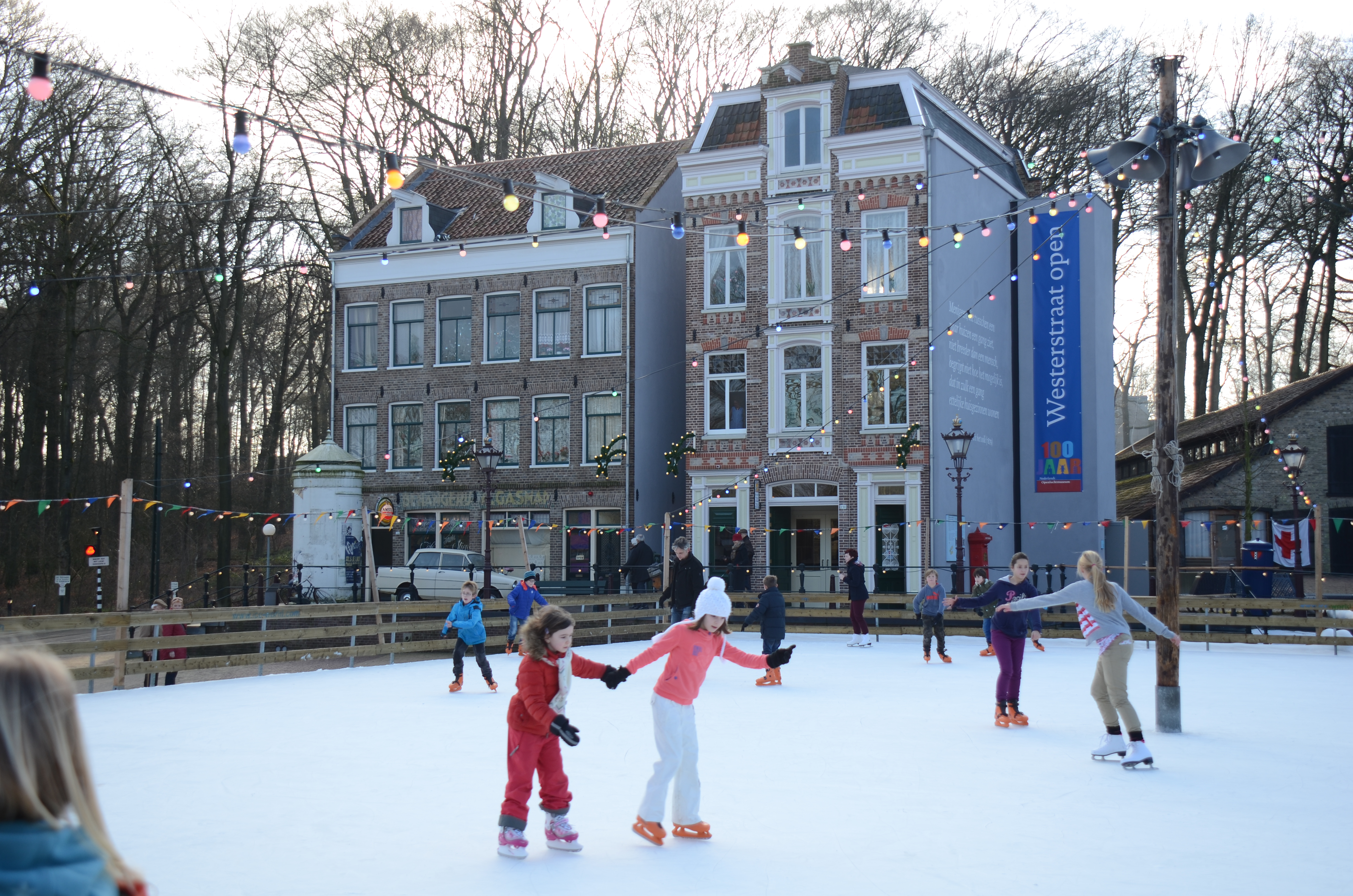 6 weeks scatingfun at Open Air Museum Arnhem. Now 10 Januari 2014. No winter in Holland, but still posibilities for winterfun